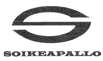 Logo of Soikeapallo sports products. The Copyright Council of Finland has ruled (TN 2000:1) that it is below the threshold of originality in Finnish copyright law.